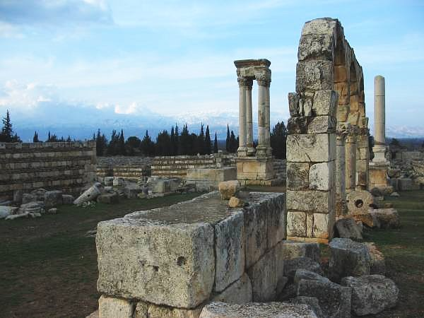 A picture of the ruins of Anjar in Lebanon.